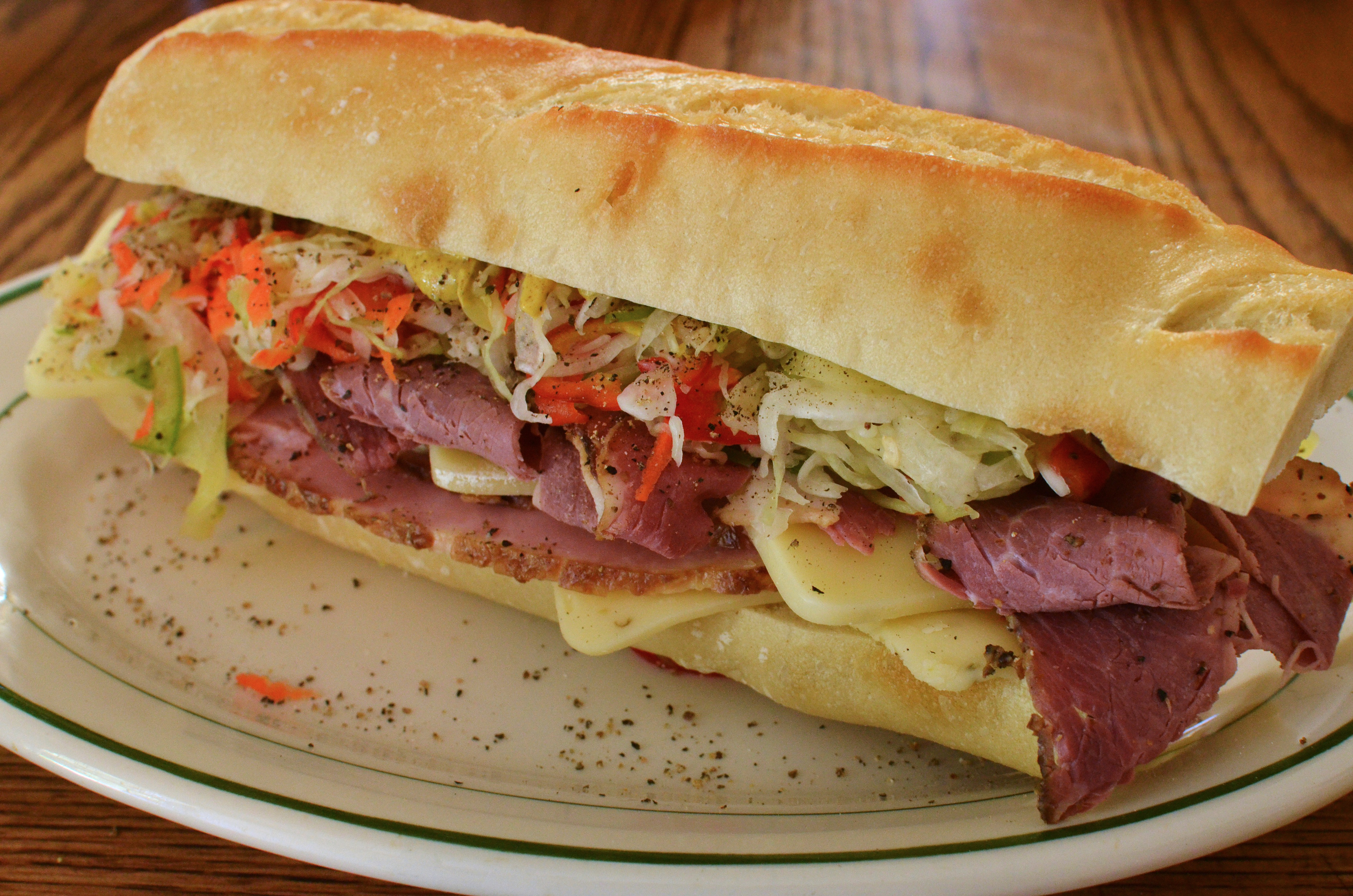 Mmm... you're my hero!